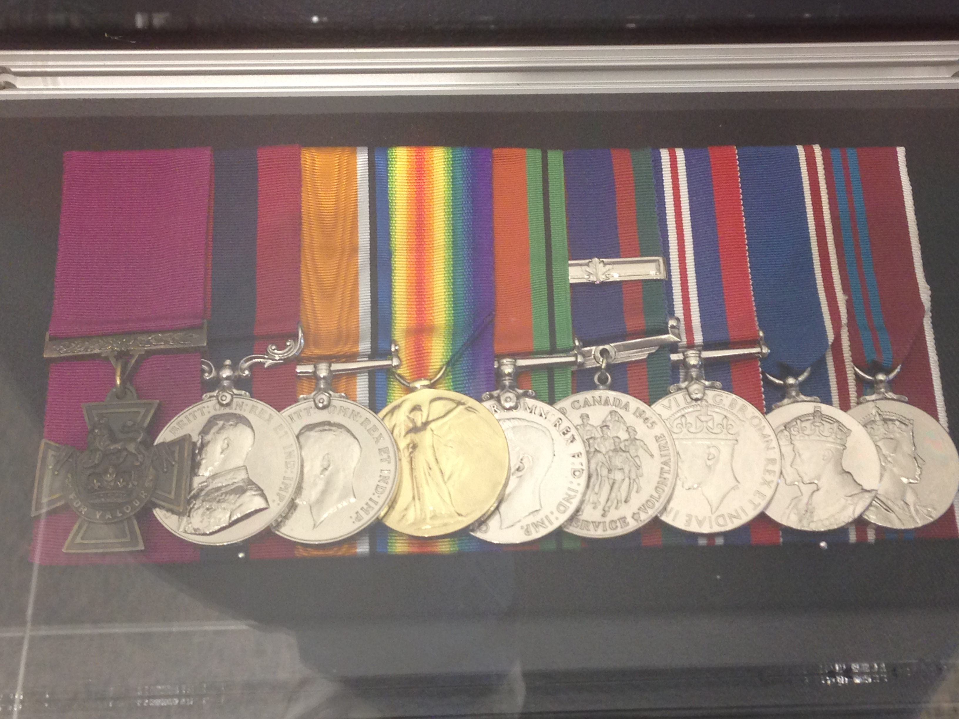 Decorations and Medals of Robert Shankland VC, DCM on display at the Manitoba Museum, Winnipeg, Manitoba, October 19, 2014